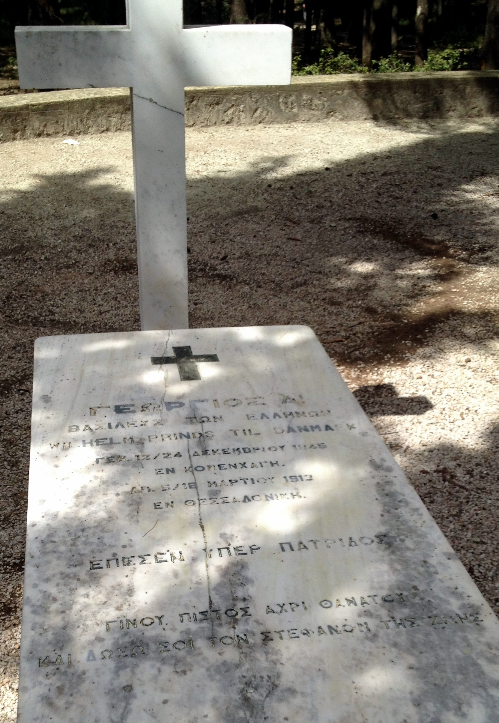 Tomb of King George I of Greece